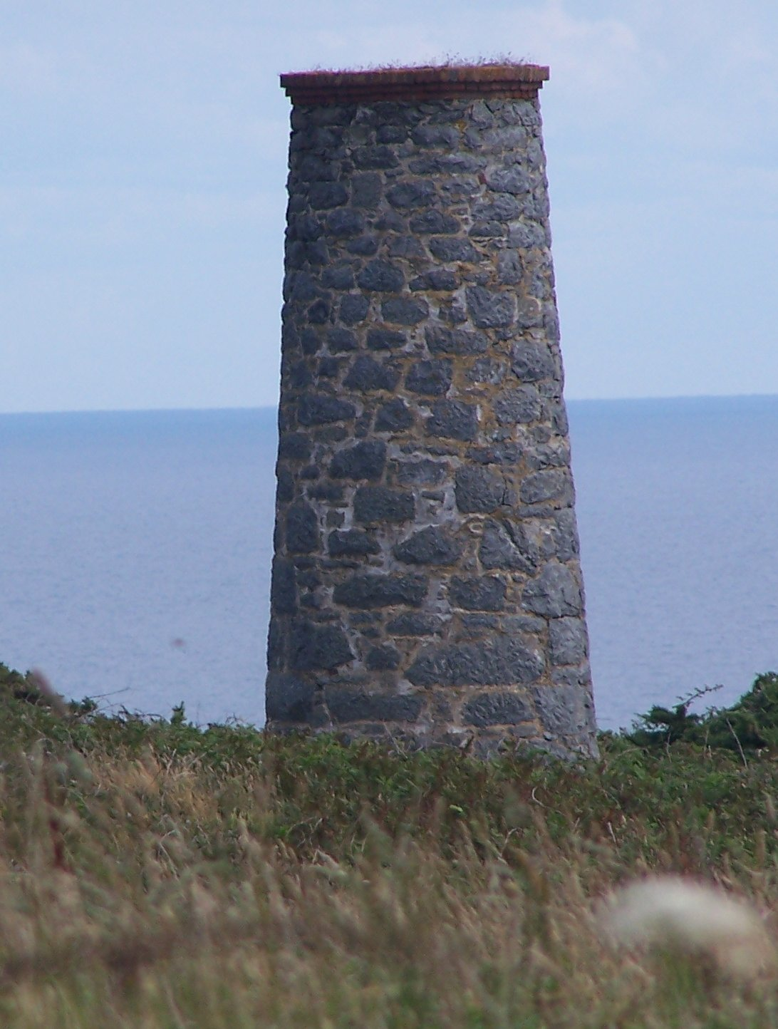 Stack on Sark's Hope Silver Mine, Little Sark. Probably for the boiler of the winding engine. Sark